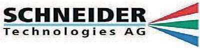 Schneider Technologies AG logo cut from an old brochure